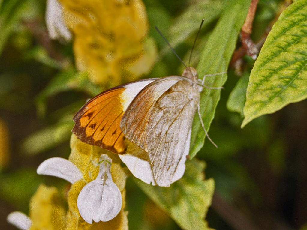 Hebomoia glaucippe